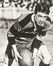 Arthur 'Pony' Halloway (rugby league) (1885–1961) Australia 1911